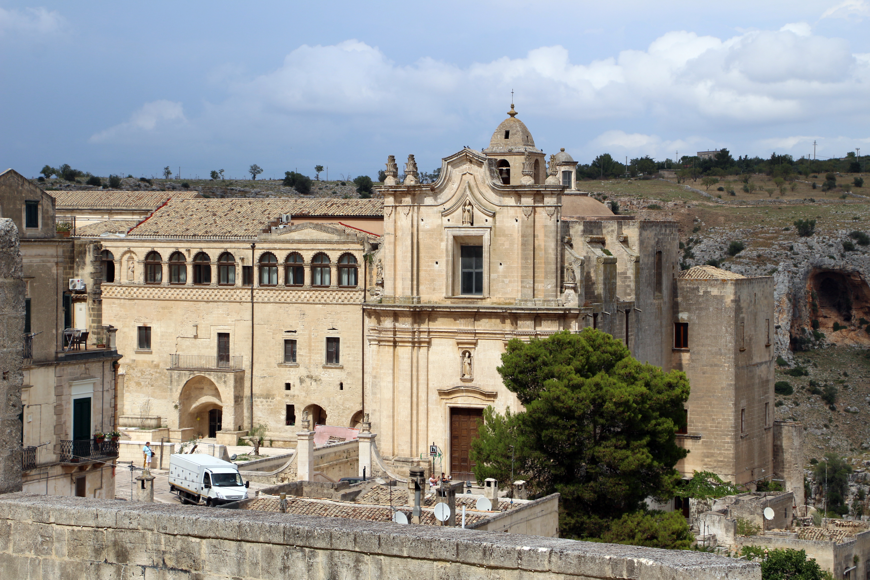 Churches in Matera